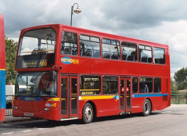 New Scania OmniDekka at Addington Interchange, near to Addington, Croydon, Great Britain. This Scania double-decker was photographed at Addington Interchange on its first day in public service. It is Metrobus 445 (YV03 RAU), a 2003 Scania N94UD OmniDekka.